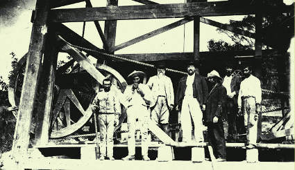 First oil well drilled in Brazil, 1892